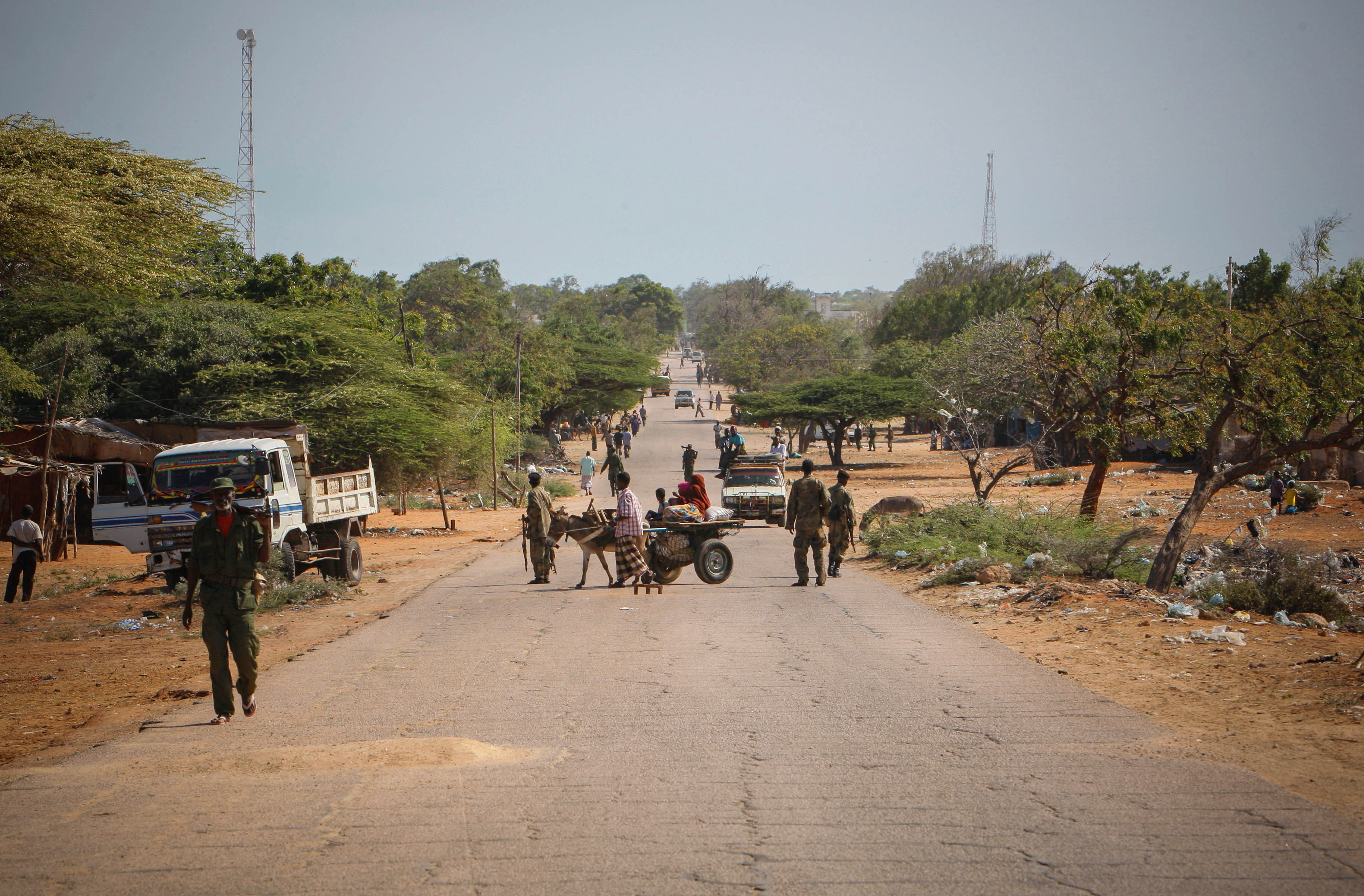 General street scene in the southern Somali port city of Kismayo near to where a team of engineers serving with the Kenyan Contingent of the African Union Mission in Somalia (AMISOM) searched a former police station in the southern Somali port city of Kismayo for improvised explosive devices (IEDs) 03 October 2012. The Al-Qaeda-affiliated extremist group Al Shabaab withdrew from the city on 02 October after AMISOM troops, Somali National Army (SNA) forces and the pro-government Ras Kimboni Brigade entered and captured Kismayo without a fight. During their security sweep, AMISOM engineers found one device planted in the perimeter wall next to the entrance, which was destroyed by a controlled explosion. AU-UN IST PHOTO / STUART PRICE.